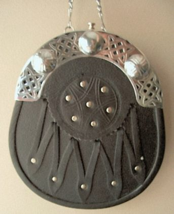 Black leather sporran